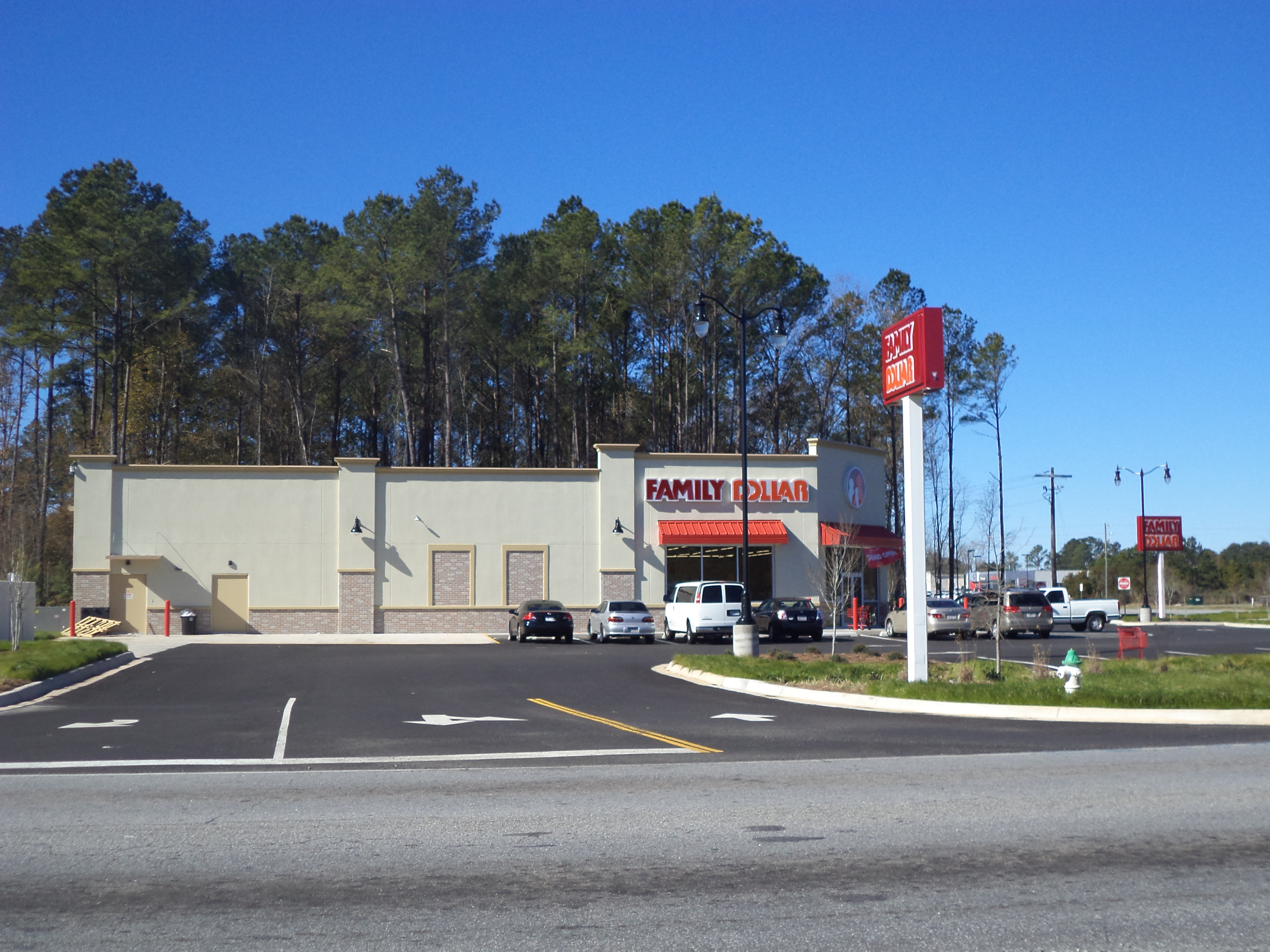 Family Dollar, 3820 Inner Perimeter Road, Valdosta, Lowndes County, Georgia